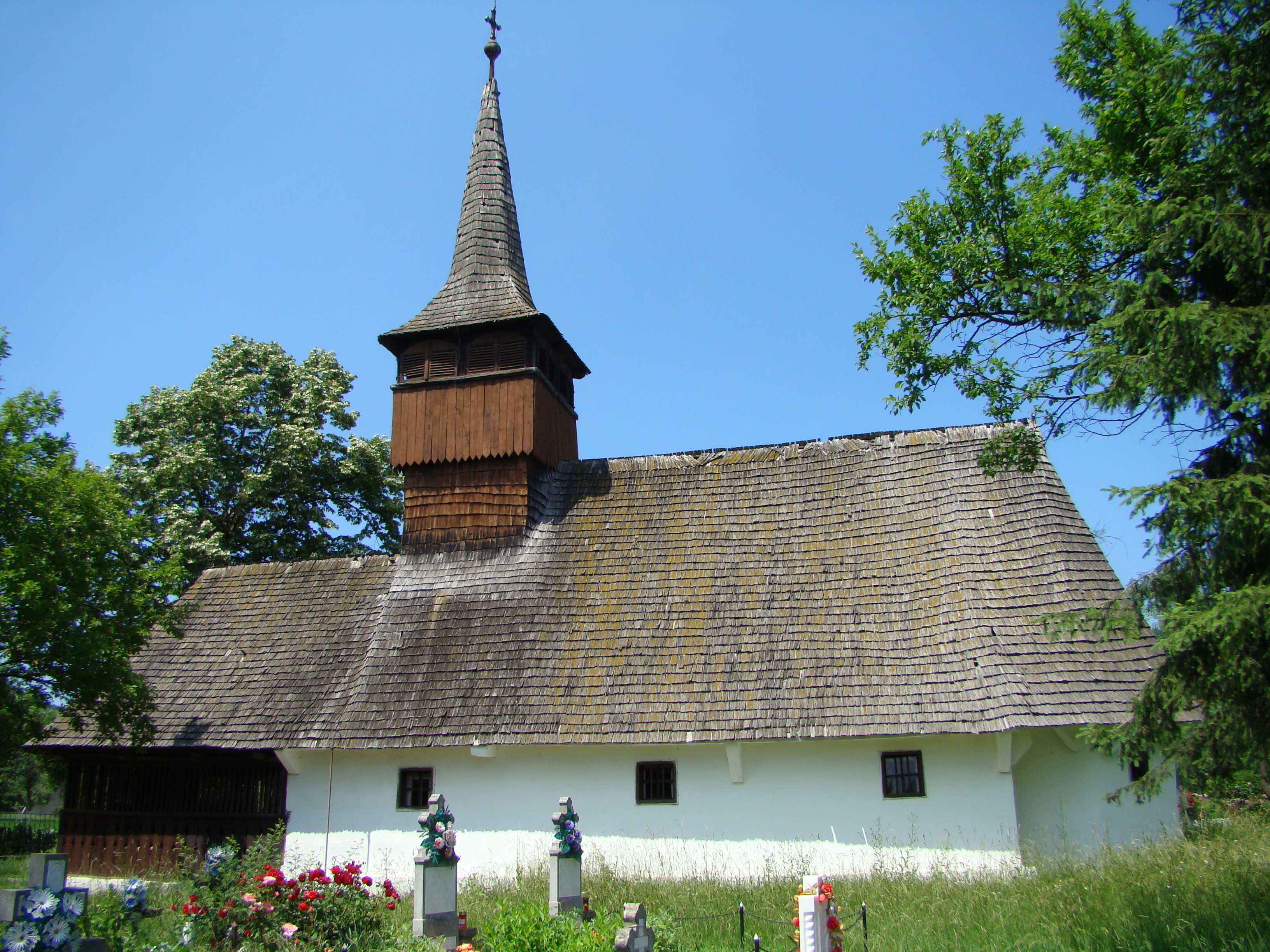 wooden Orthodox church in Boz, Hunedoara County, RomaniaRomână: Biseria de lemn din Boz